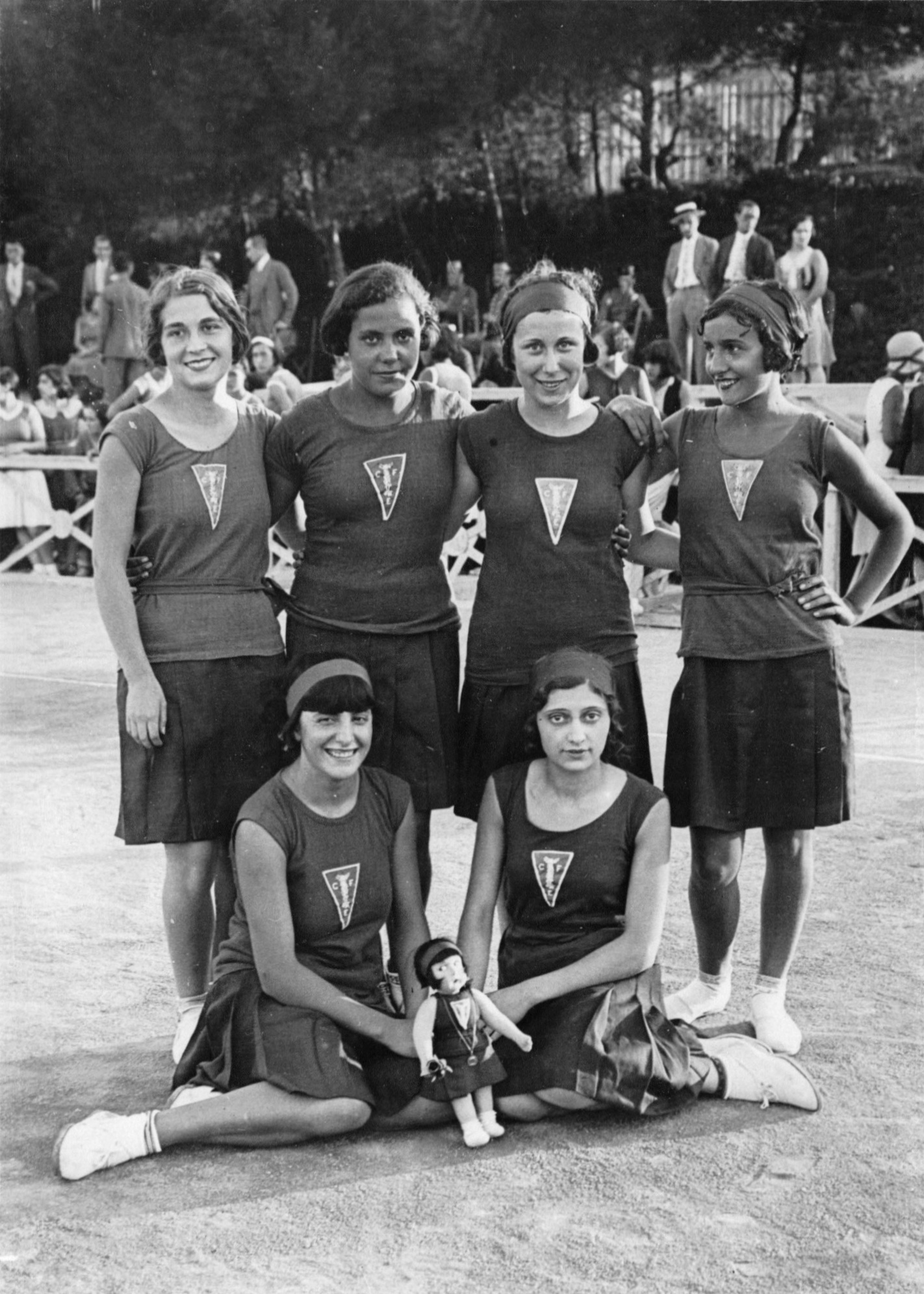 Club Femení i d'Esports basket team, July 13, 1930